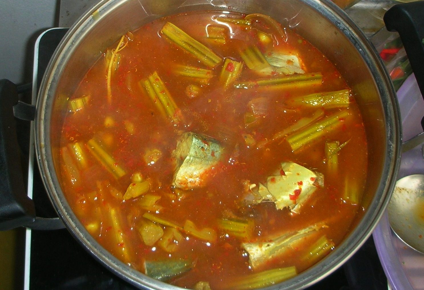 Traditional Kaeng Som, แกงส้ม (Sour Thai Curry with fish), with drumstick pods, marum มะรุม, and fresh pla thu ปลาทู